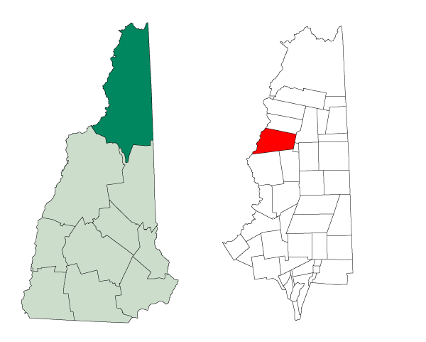 Map of a municipality in Coos County, New Hampshire